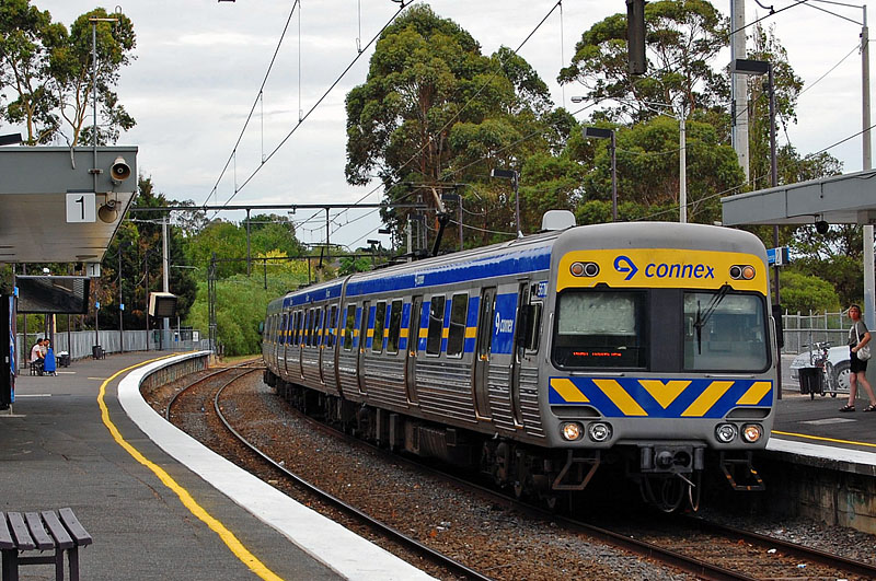 A Connex Alstom-refurbished Comeng set stops at Tooronga on a down Glen Waverley service.